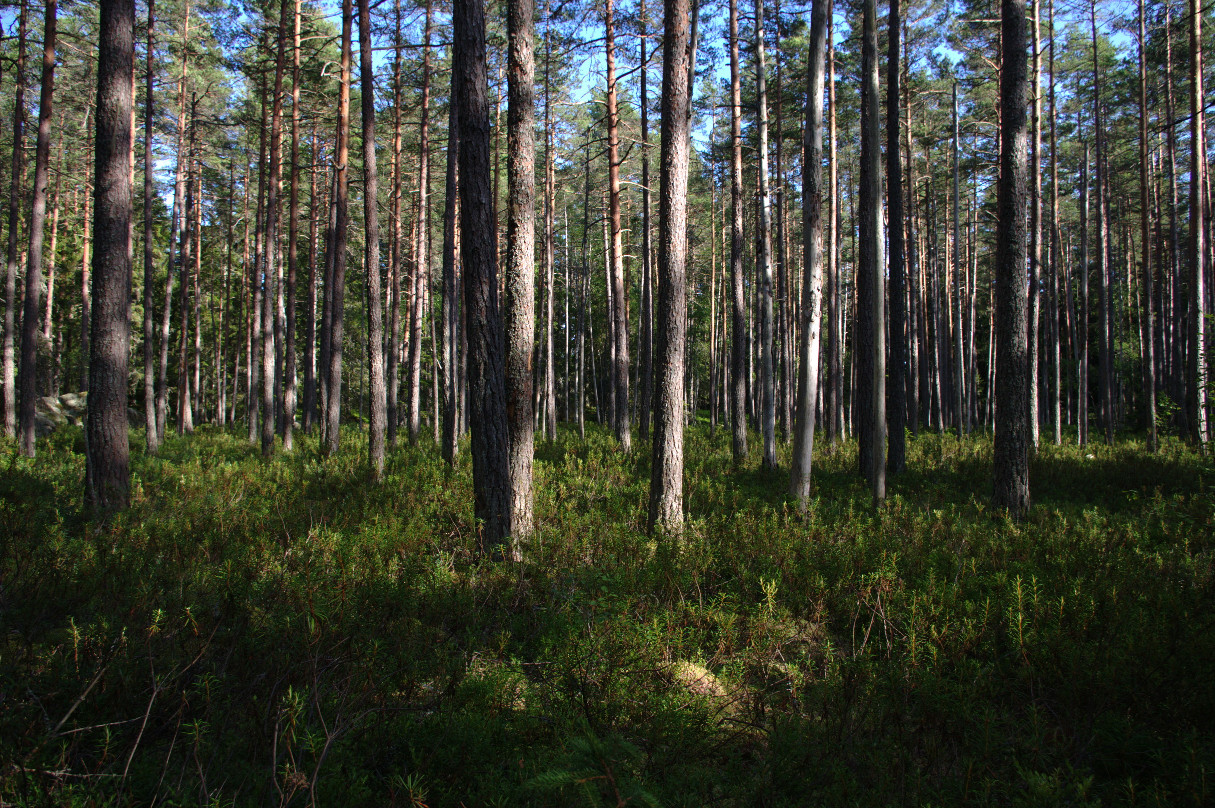 Wodded bog in Glotternskogen nature reserve, Norrköping, Sweden.